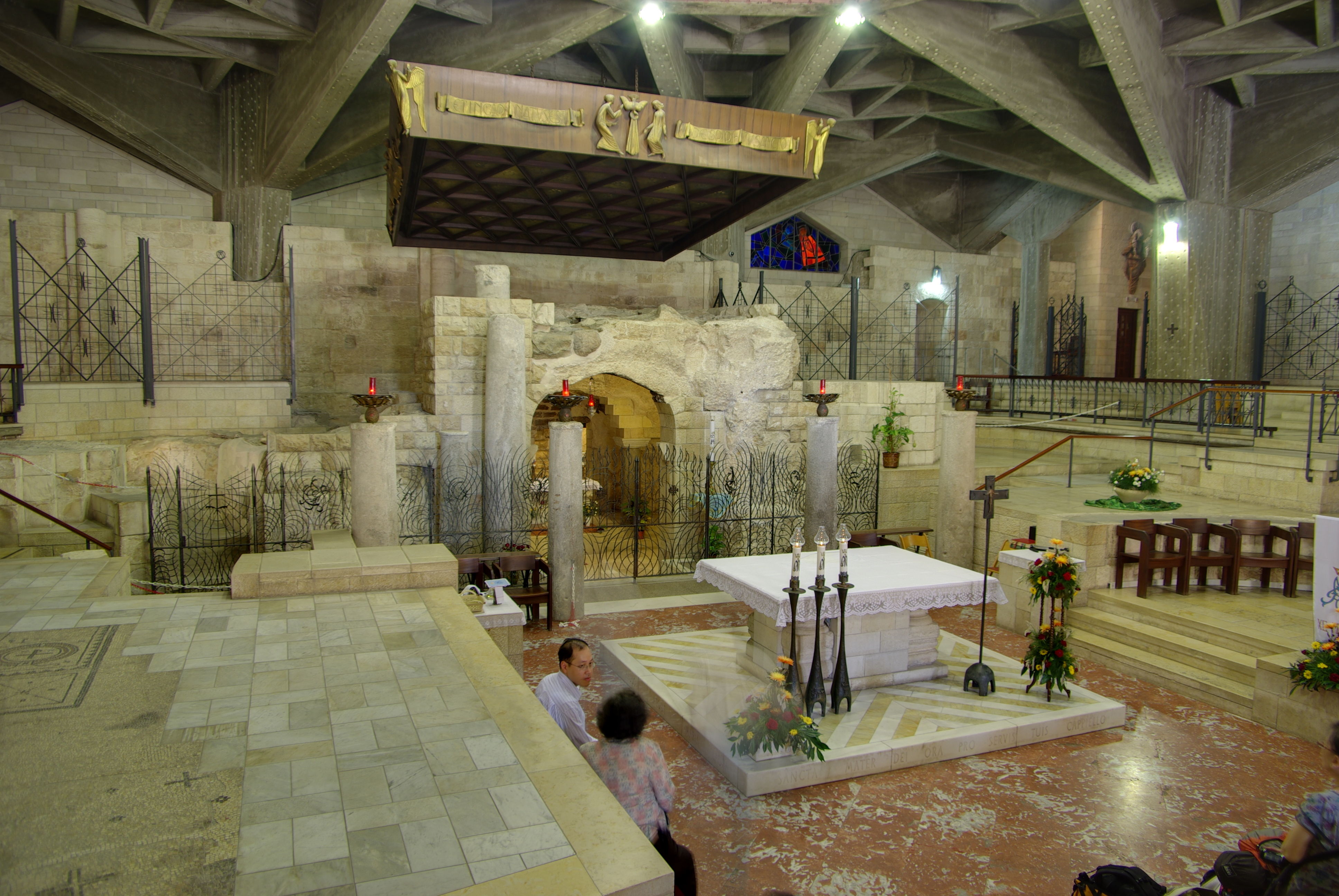 Church of the Annunciation, Nazareth, Israel